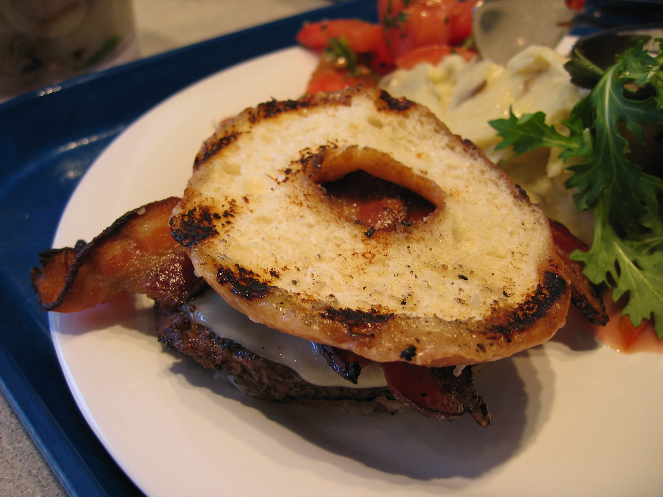 A Luther Burger as served at the Google cafeteria in New York, where it was identified as a "Bacon Krispy Kreme Burger". Source: satanslaundromat at